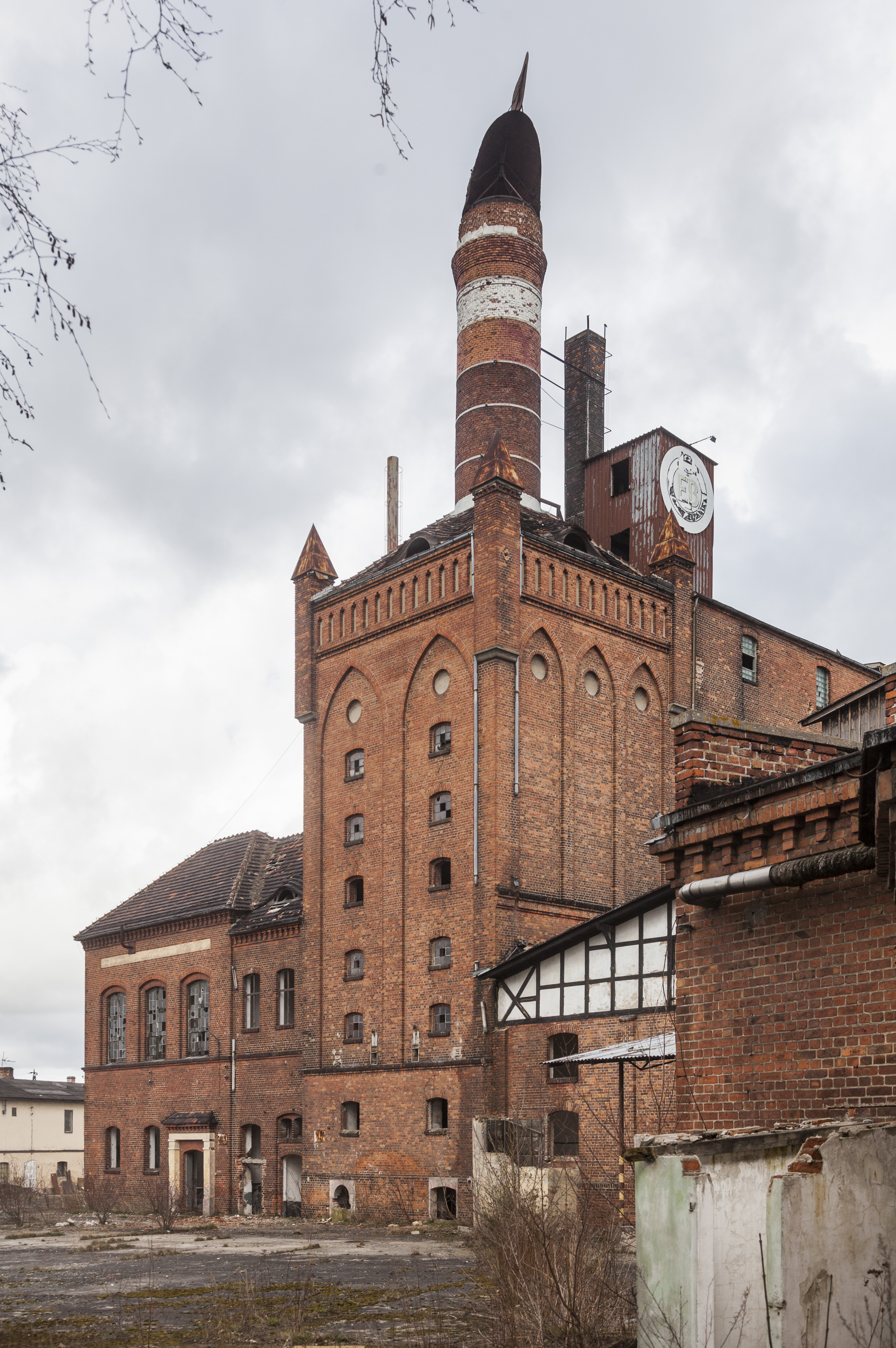 Old malthouse in Nowy Staw, Poland.